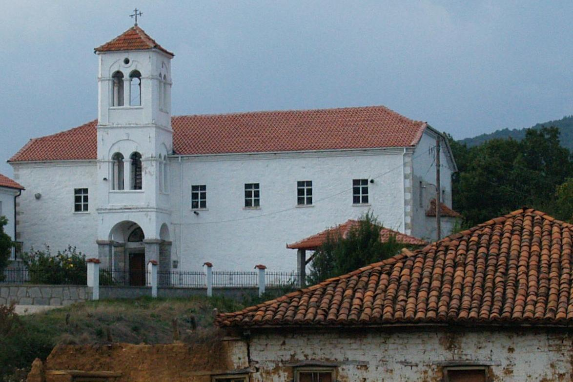 Old church of St.Nikolaoy at Gavros/Gabresh, Greece